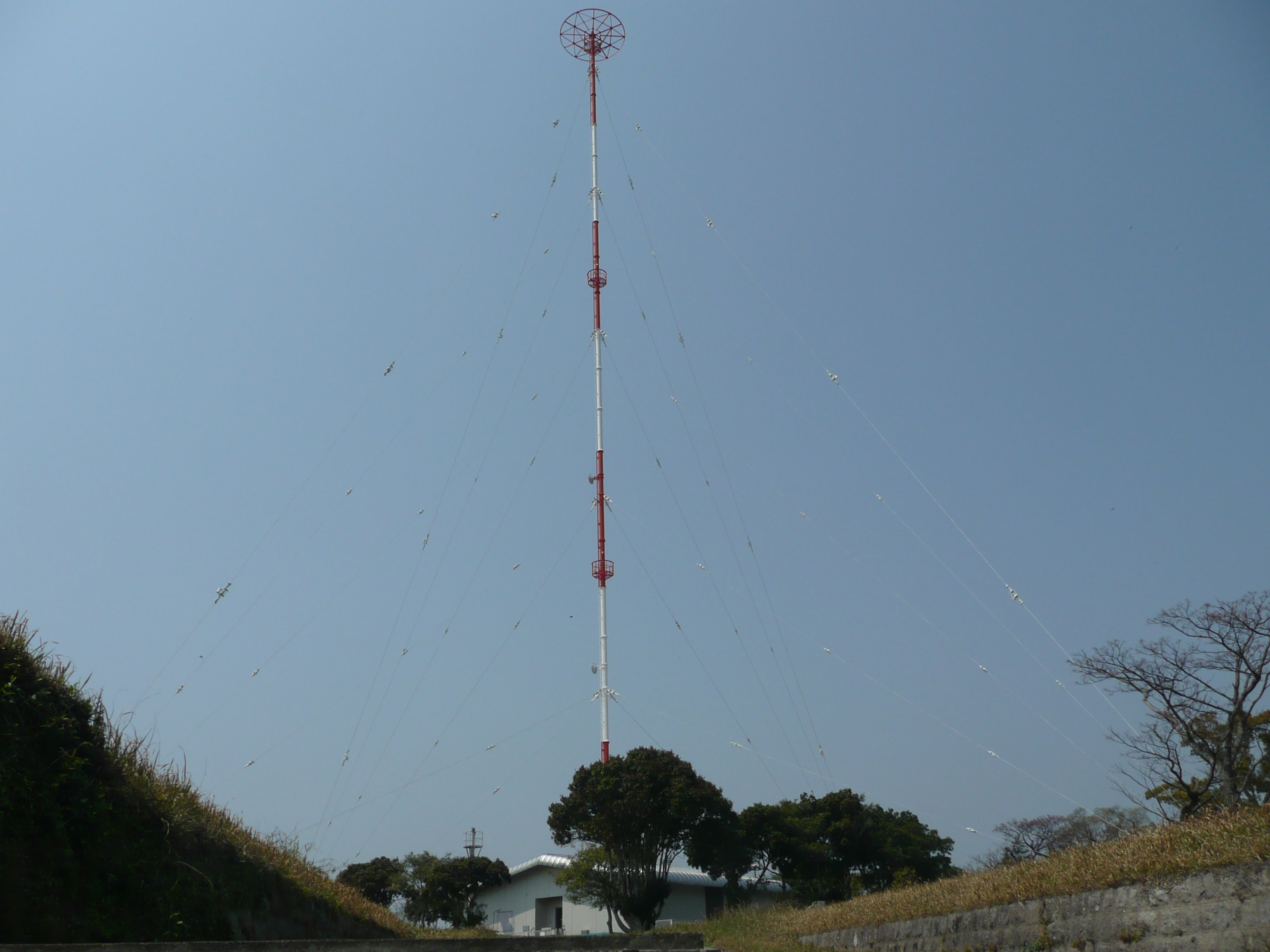 JOHG (NHK Kagoshima - AM Radio)